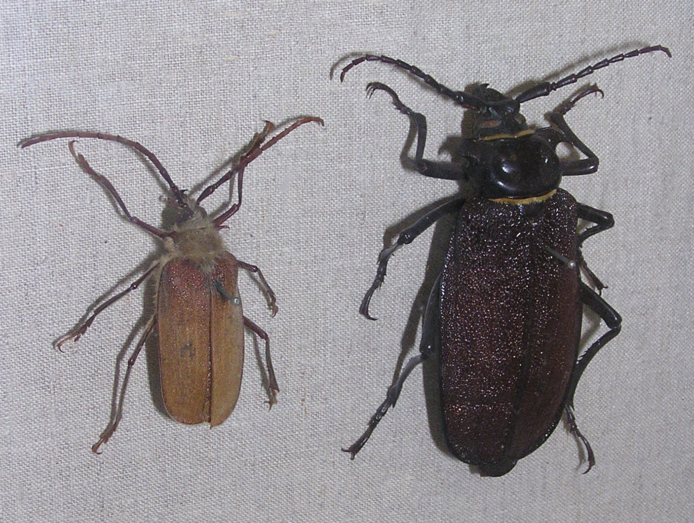 Ancistrotus cumingi, on display in Saint Petersburg Zoology Museum, Russia.